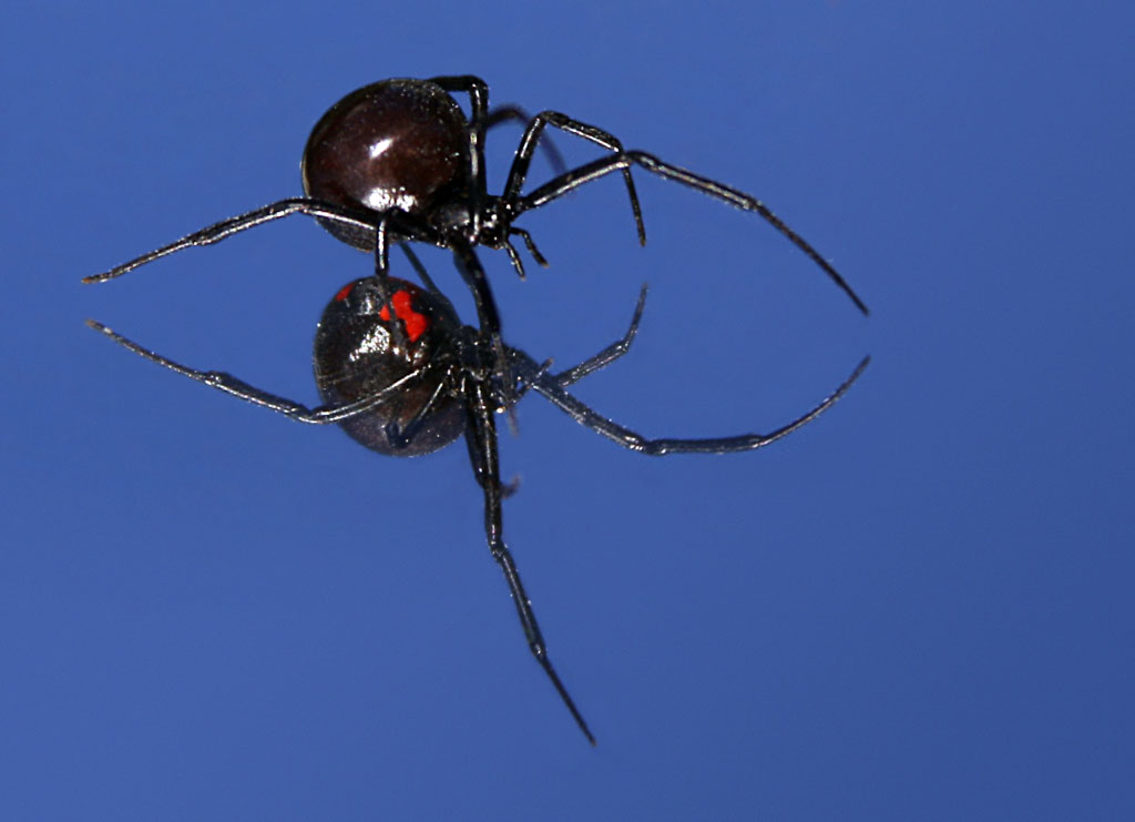 Black widow (Latrodectus mactans). Deadly and Beautiful.